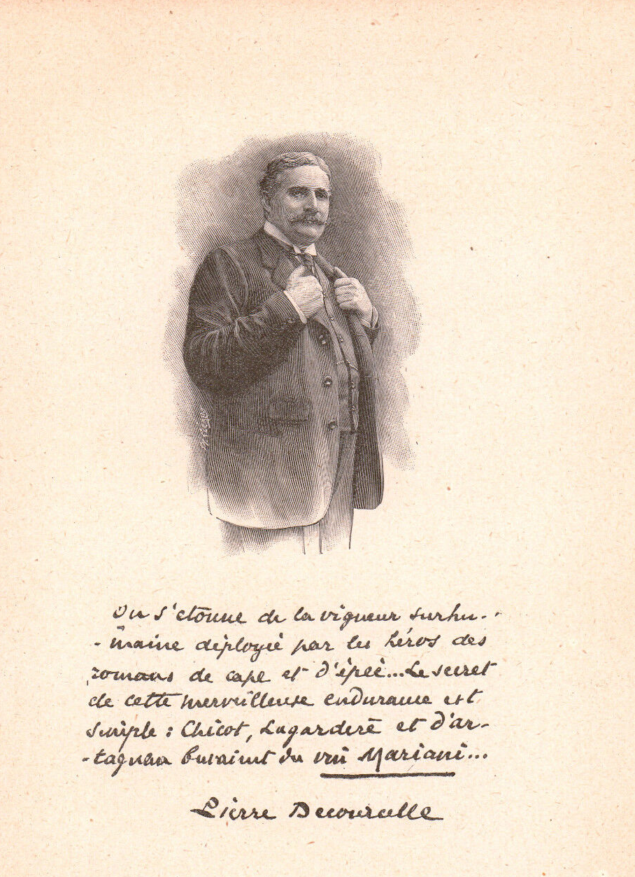 Pierre Decourcelle, engraved portrait after a photography.